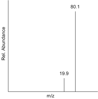 Mass spectrum of boron